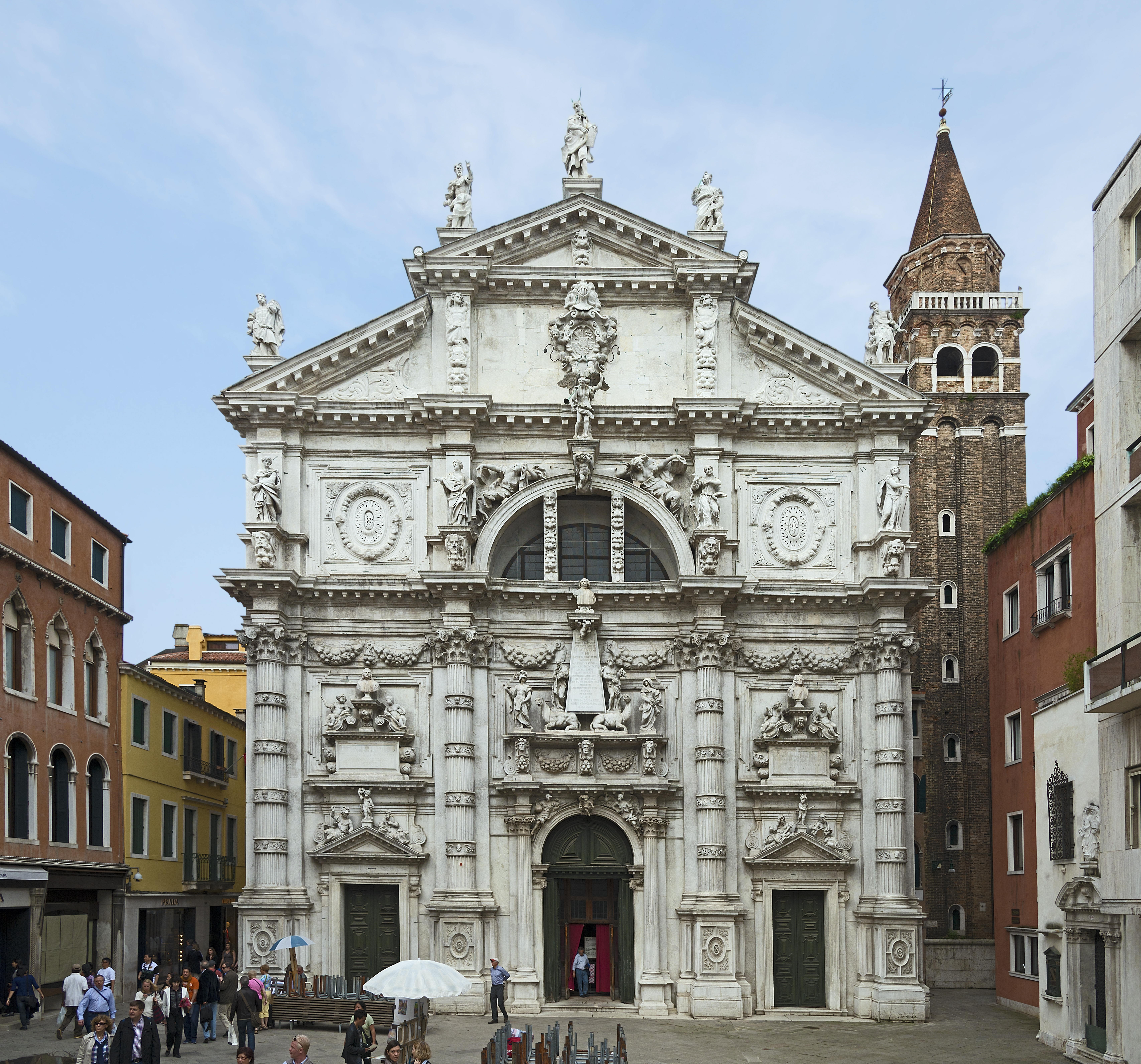 Church San Moisè Venice. Facade on Campo San Moisè by Alessandro Tremignon.